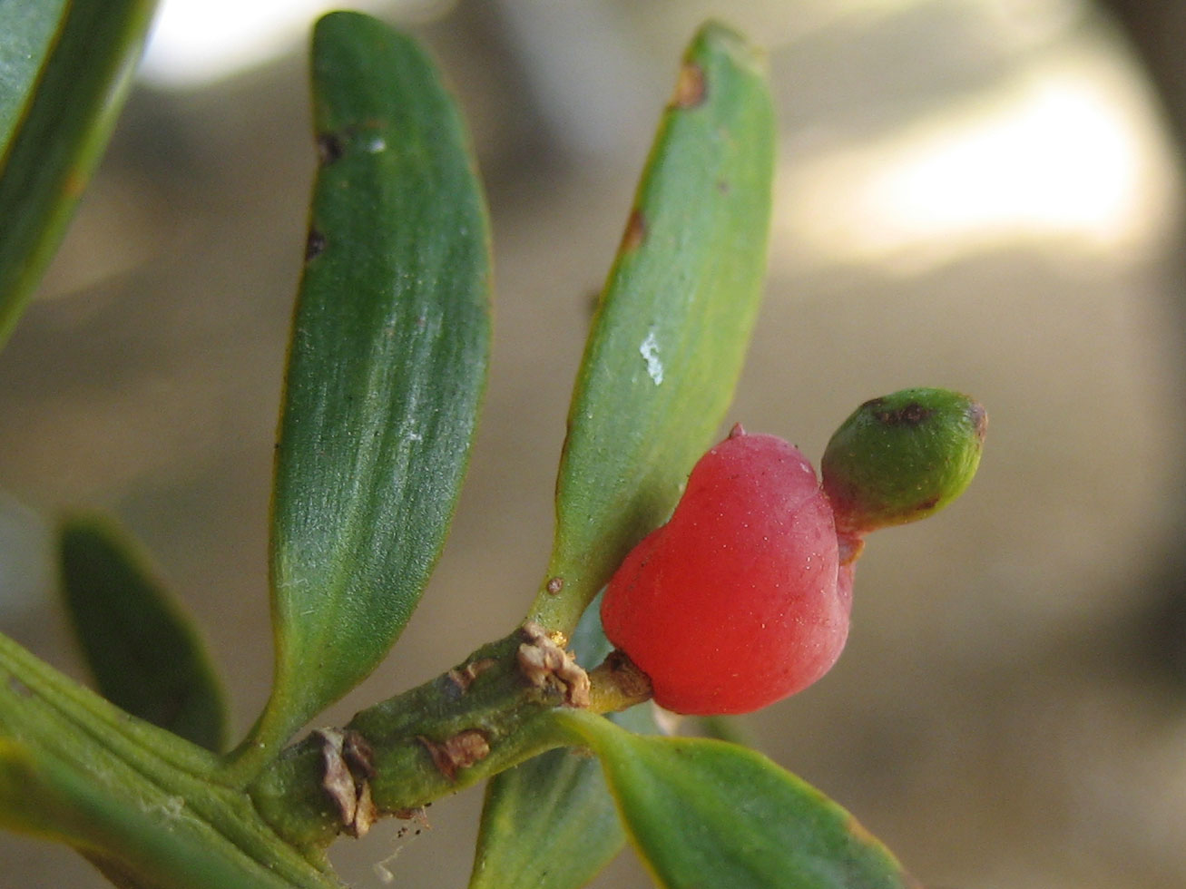 Receptacle and seed of Tōtara, Podocarpus totara, Auckland, New Zealand